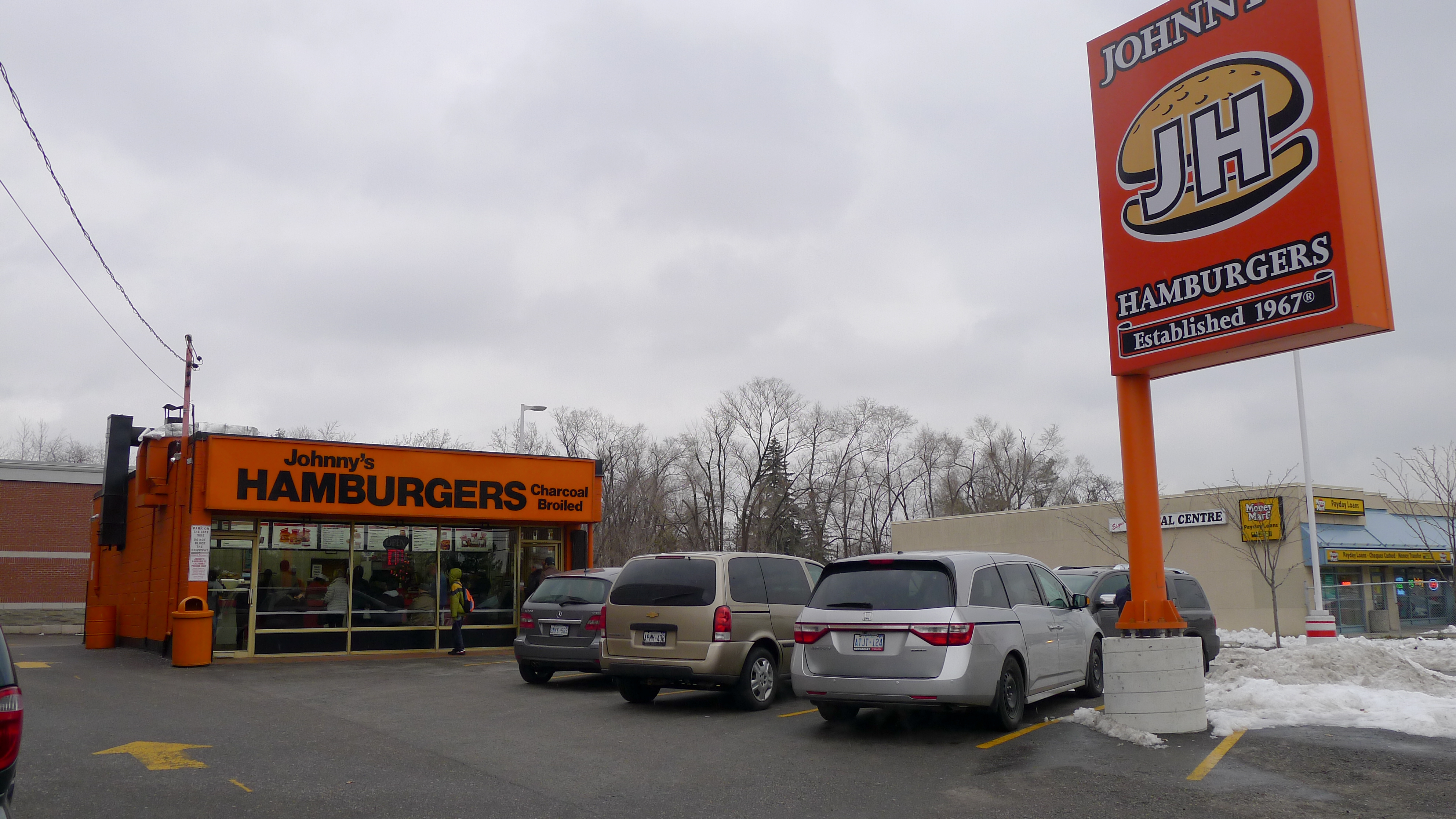 This is a view outside of Johnny's Hamburgers.